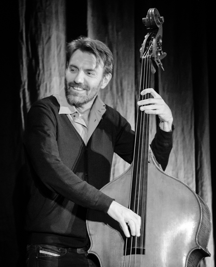 Mats Eilertsen performs with Bendik Hofseth at Thon Hotel Jølster. The concert was part of Jazz på Jølst and took place on 13. October 2017. Lineup: Bendik Hofseth (saxophone), Helge Iberg (piano), Mats Eilertsen (double bass), Audun Kleive (drums) and Bård Vegard Solhjell (introduction).